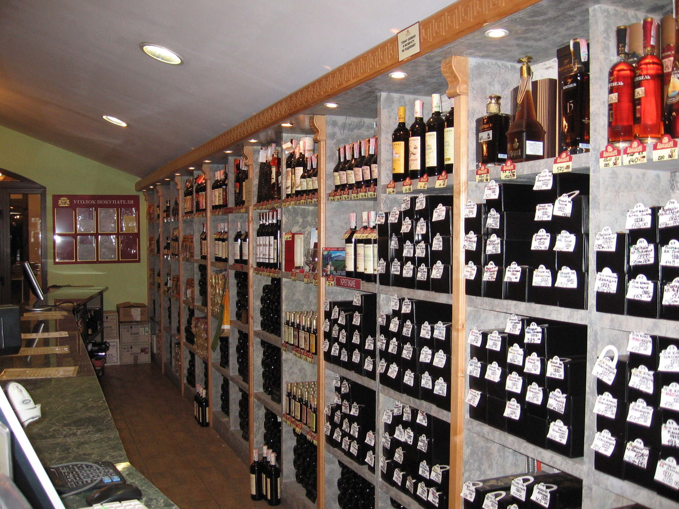 Massandra winery shop